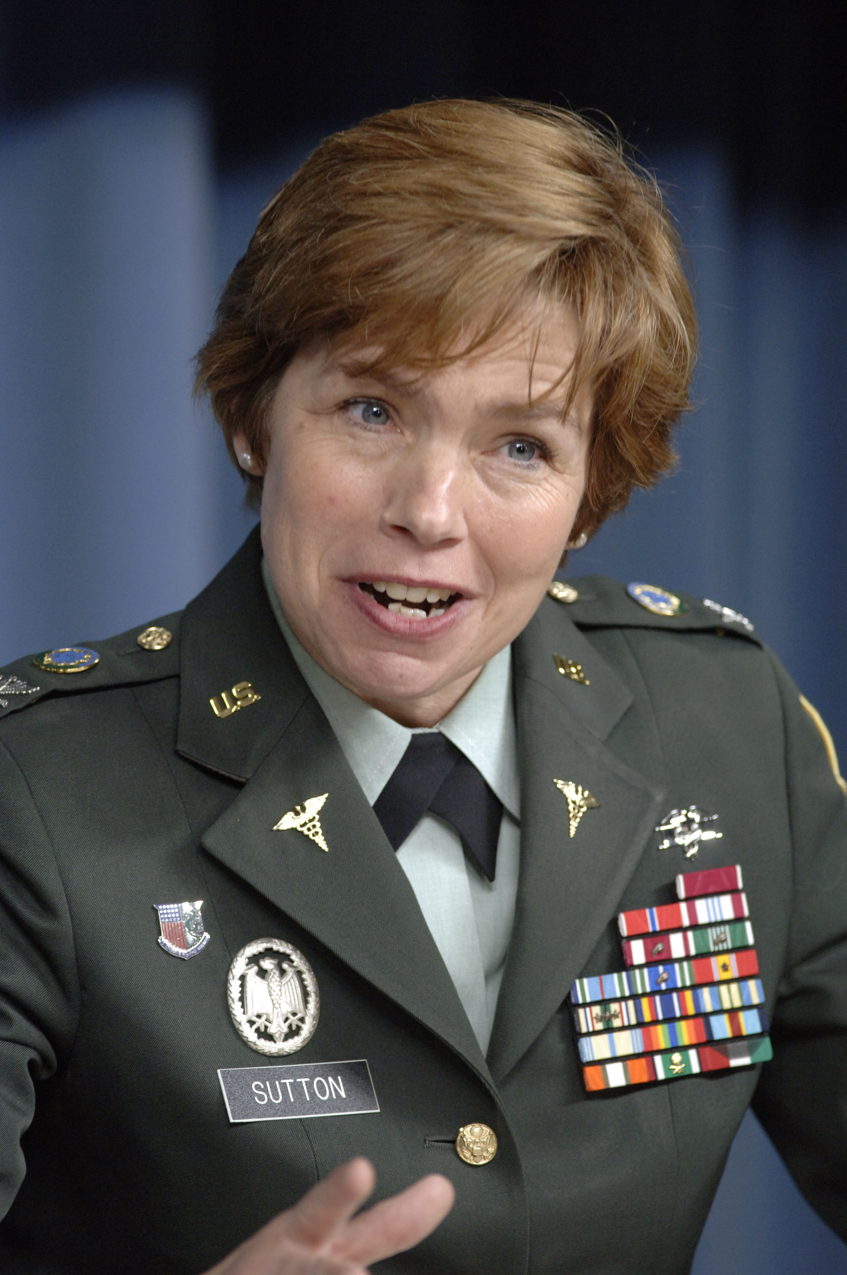 Director of the Defense Center of Excellence for Traumatic Brain Injury/Post Traumatic Stress Disorder Col. Loree K. Sutton, U.S. Army, addresses the findings and recommendations of a RAND report on brain injuries and stress disorders being suffered by combat forces in Afghanistan and Iraq during a media roundtable in the Pentagon on April 17, 2008.